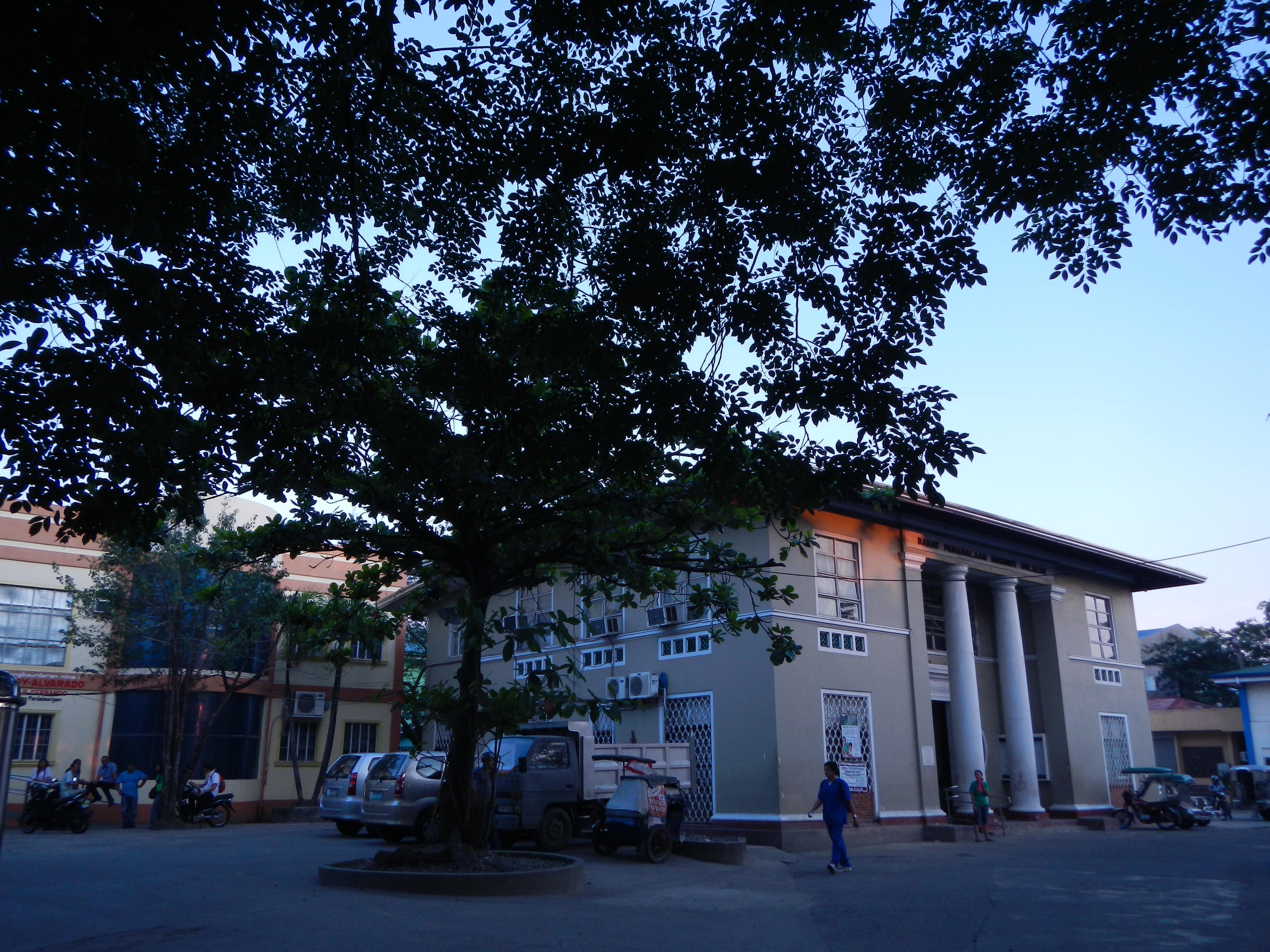 Hagonoy, Bulacan[1] town hall